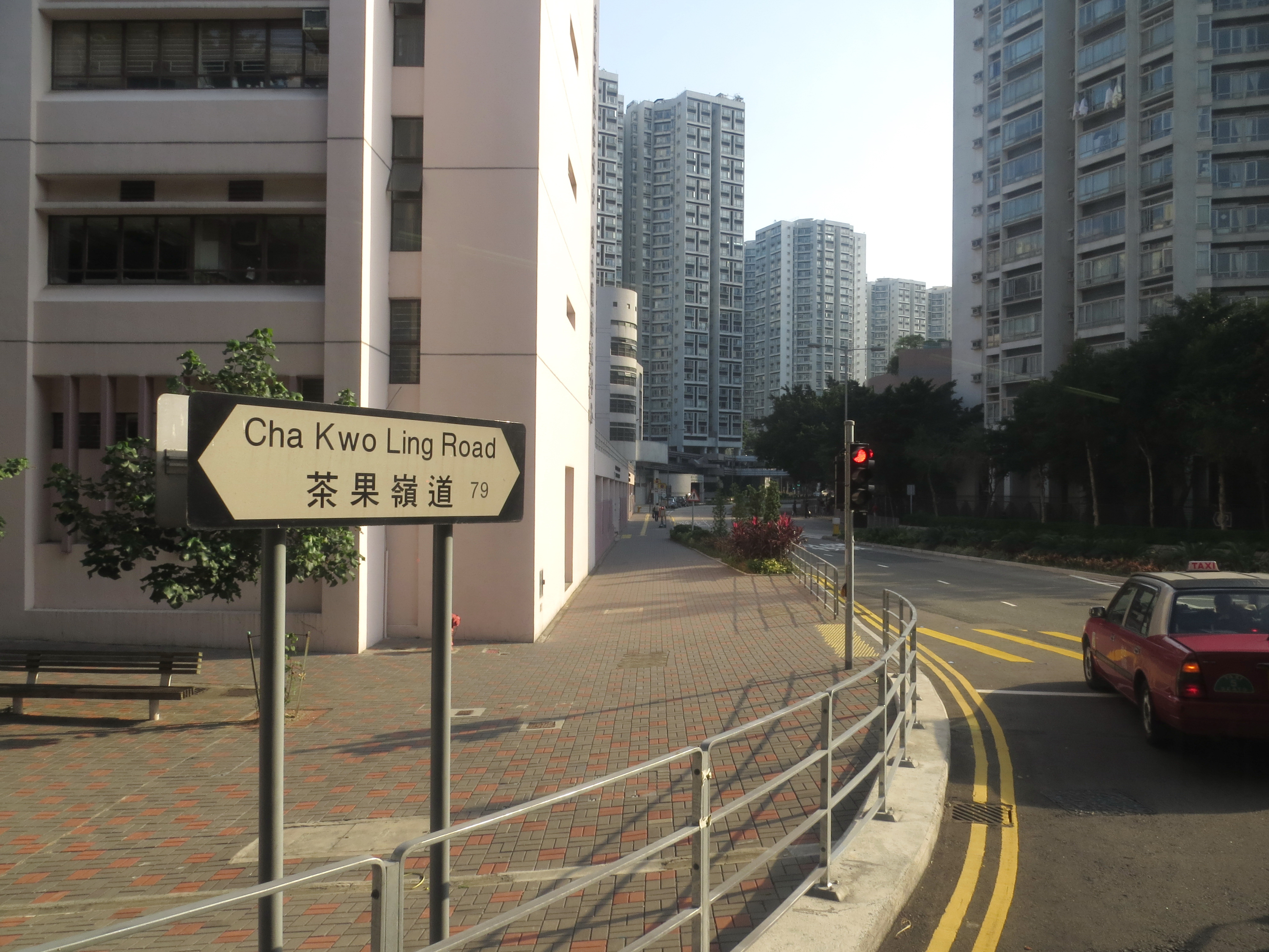 Cha Kwo Ling Road near Wai Fat Road, Kwun Tong, Kowloon, Hong Kong.